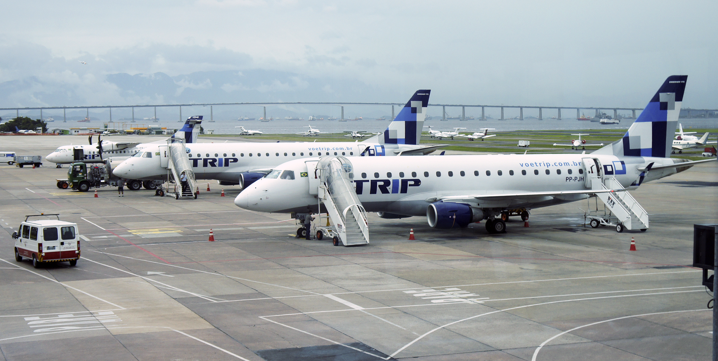 Two Embraer 175 and one ATR 72 of TRIP Linhas Aéreas at Santos Dumont Airport (SDU), Rio de Janeiro city, Brazil